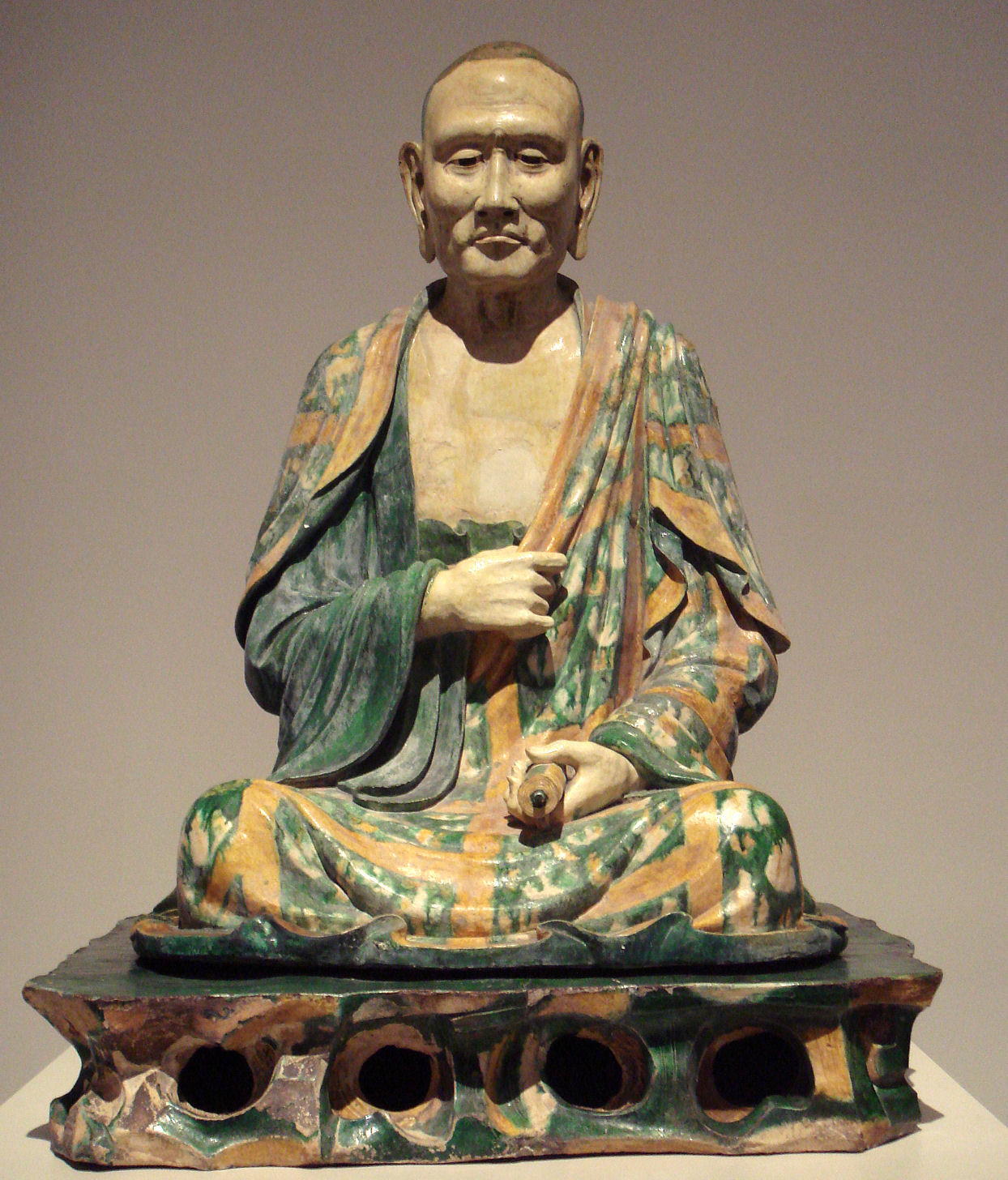 Liao Dynasty Sancai Luohan, Circa 1000